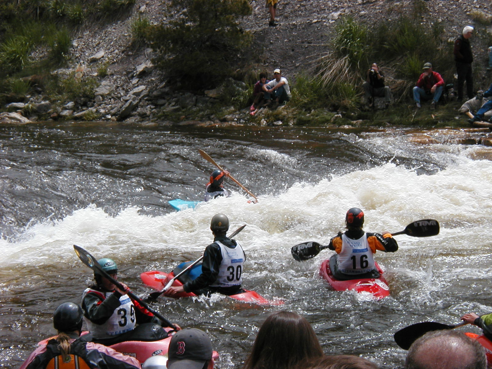 Yampa River — Charlie's Hole ("C-Hole") on the Yampa in Steamboat Springs, northwestern Colorado.